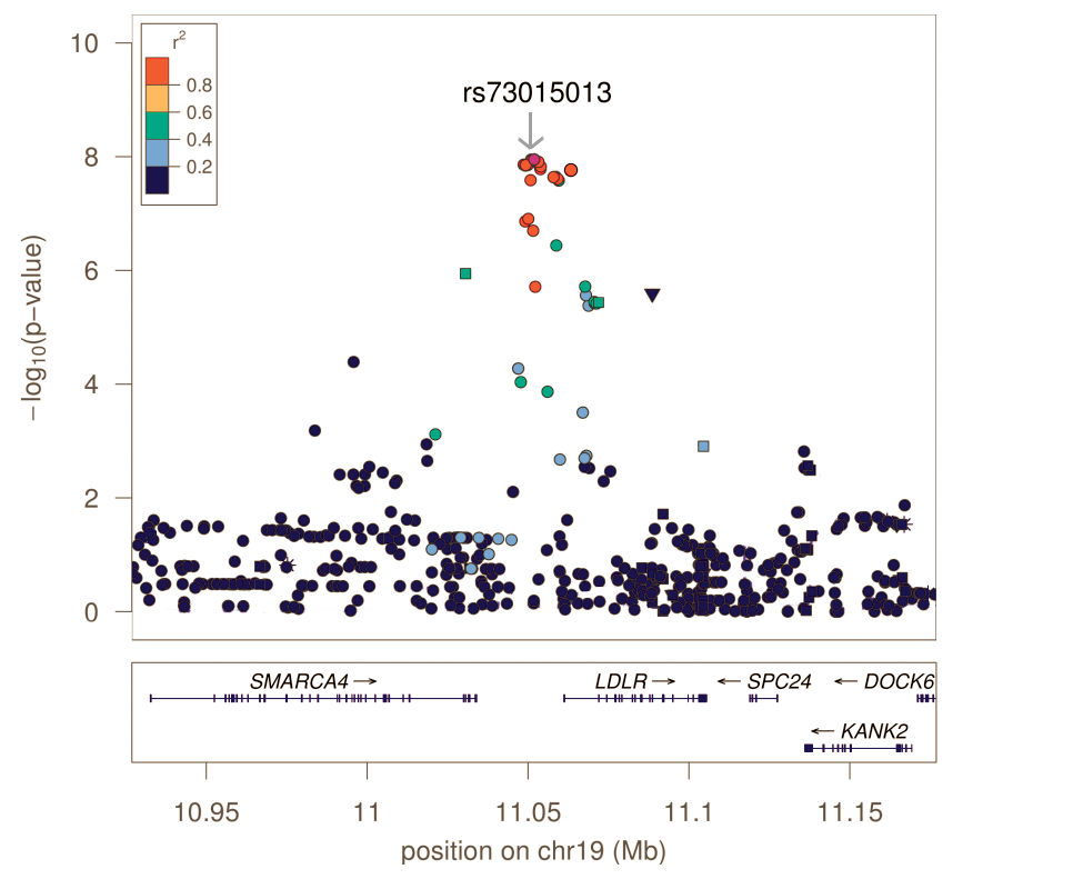 A plot of the association of SNPs in the LDLR region with LDL-cholesterol